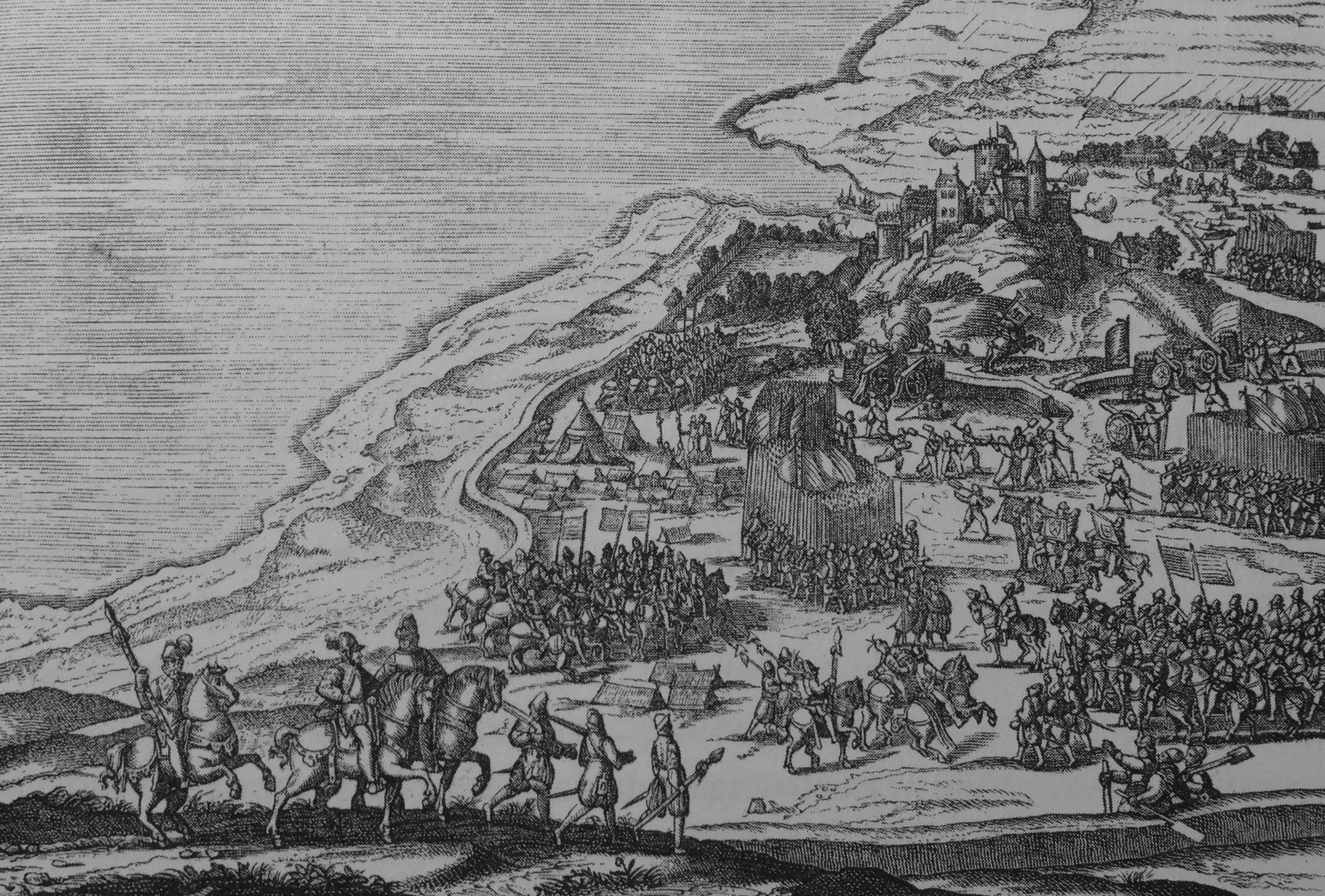 Danish forces capture the swedish castle Älvsborg 4th September 1563.